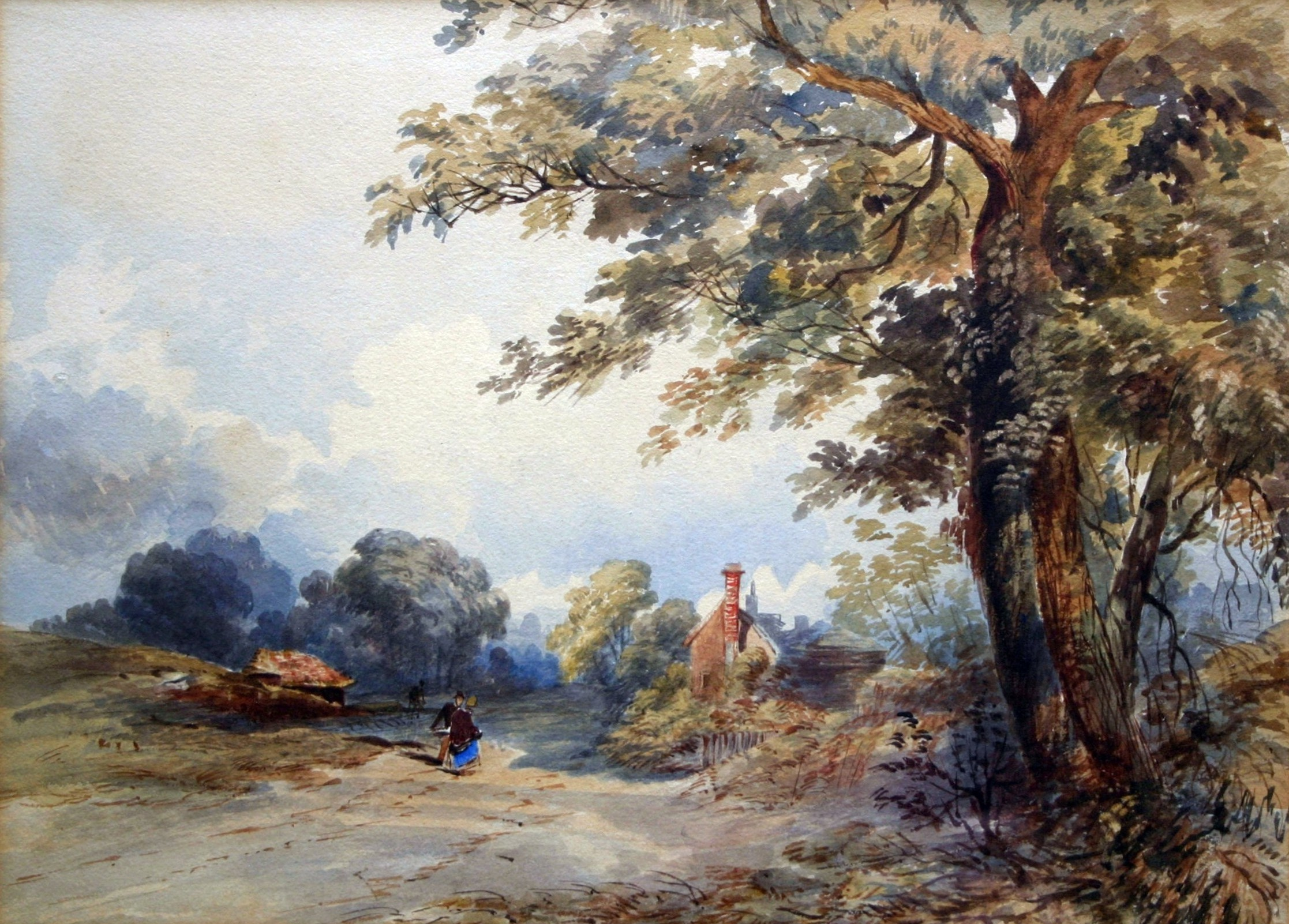 Watercolour